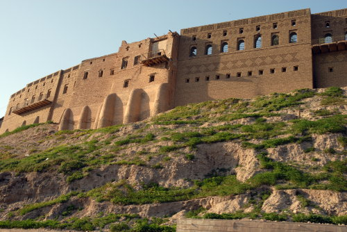 Restored house facades along the southern perimeter of the Citadel of Arbil (Iraq)